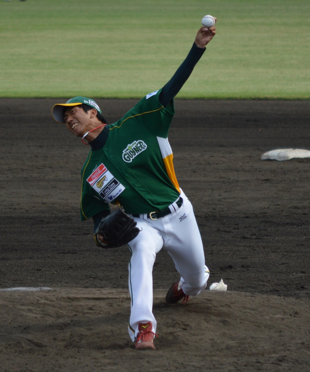 HC-Mitsuhiro-Nagakawa20130605